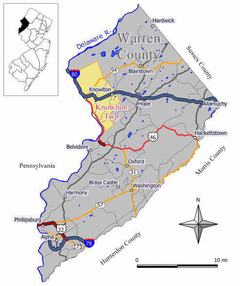 Original work by Jim Irwin, December 2005. Map of Knowlton Township in Warren County, New Jersey.